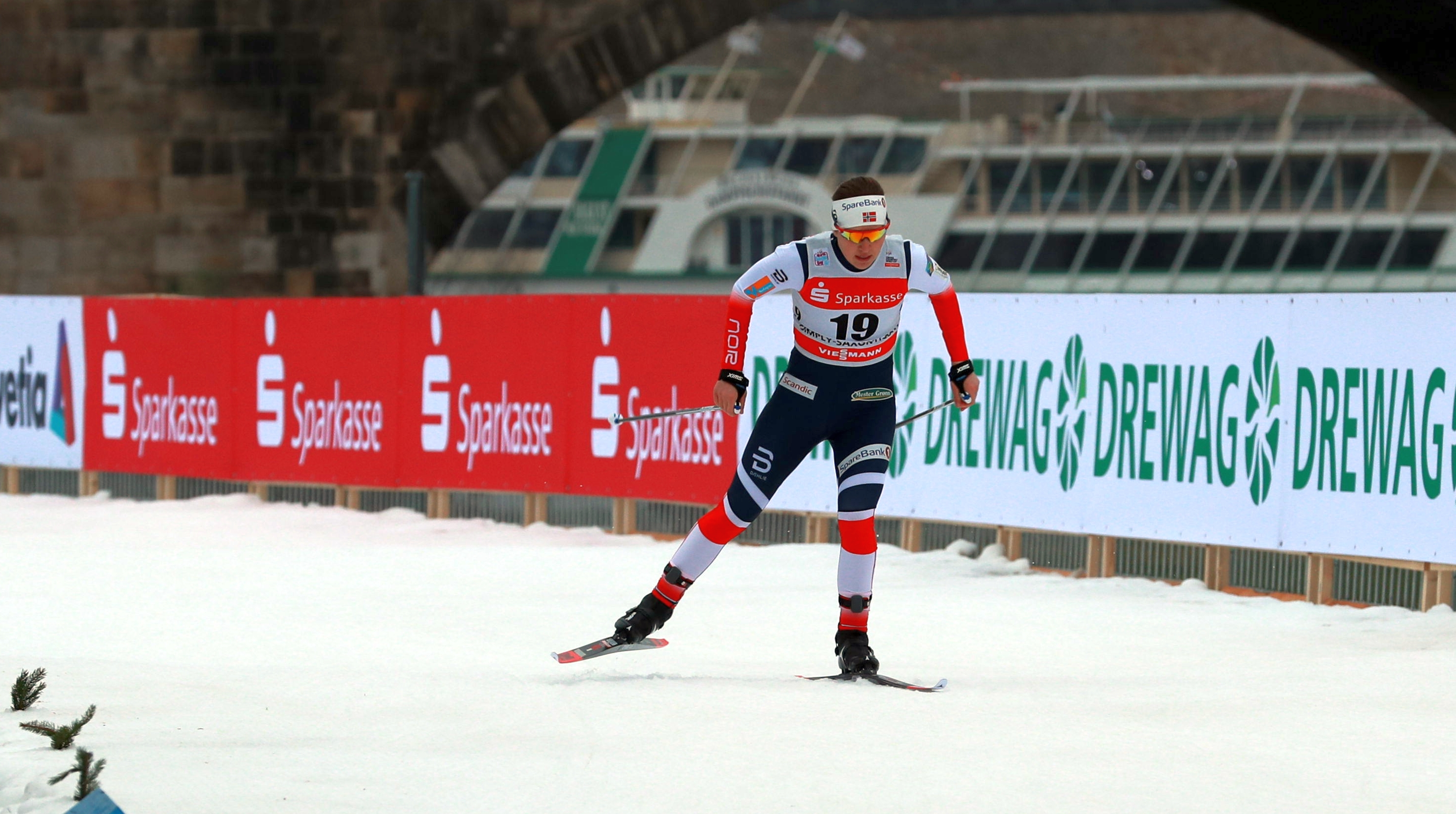 Womens Prolog at the FIS Cross-Country World Cup Dresden 2018: Tiril Udnes Weng